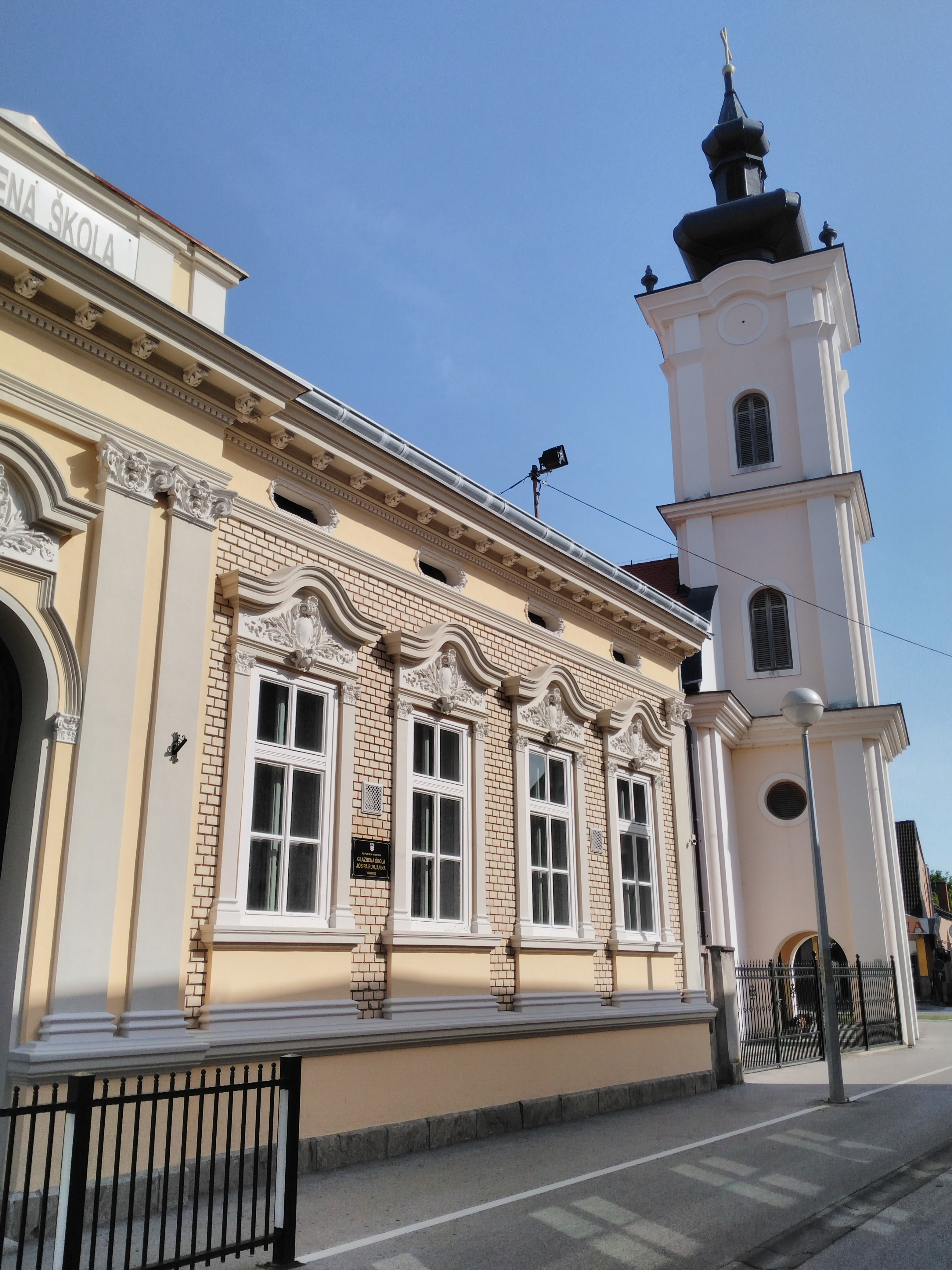 Music school and Serbian Orthodox Church in Vinkovci